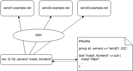 Rex is executed on the command line. Required parameters are fetched from the local Rexfile. The task is executed on all servers via ssh.